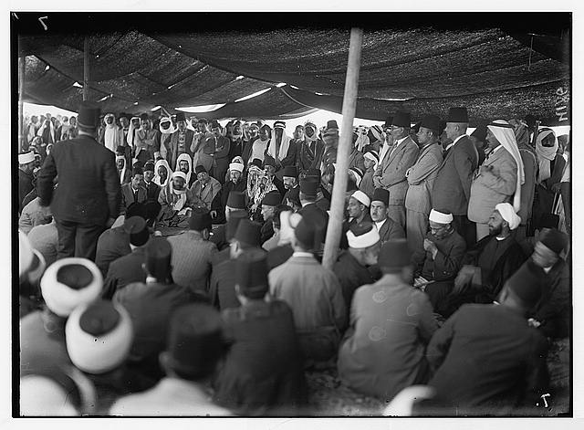 Pan-Islamic conference. Gathers at Shunet Nimrin, Transjordan. In session. Center of group, Grand Mufti of Jerusalem, King Ali and Emir Abdullah.